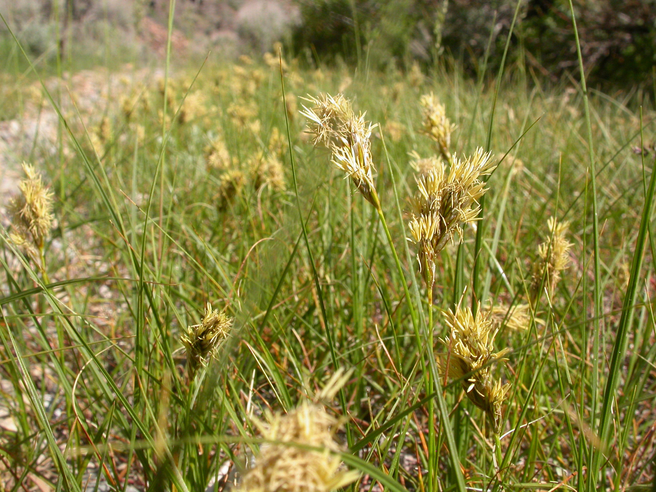 A classic setting of Carex douglasii forming extensive dense stands on well drained soils along an infrequently traveled road or roadside.